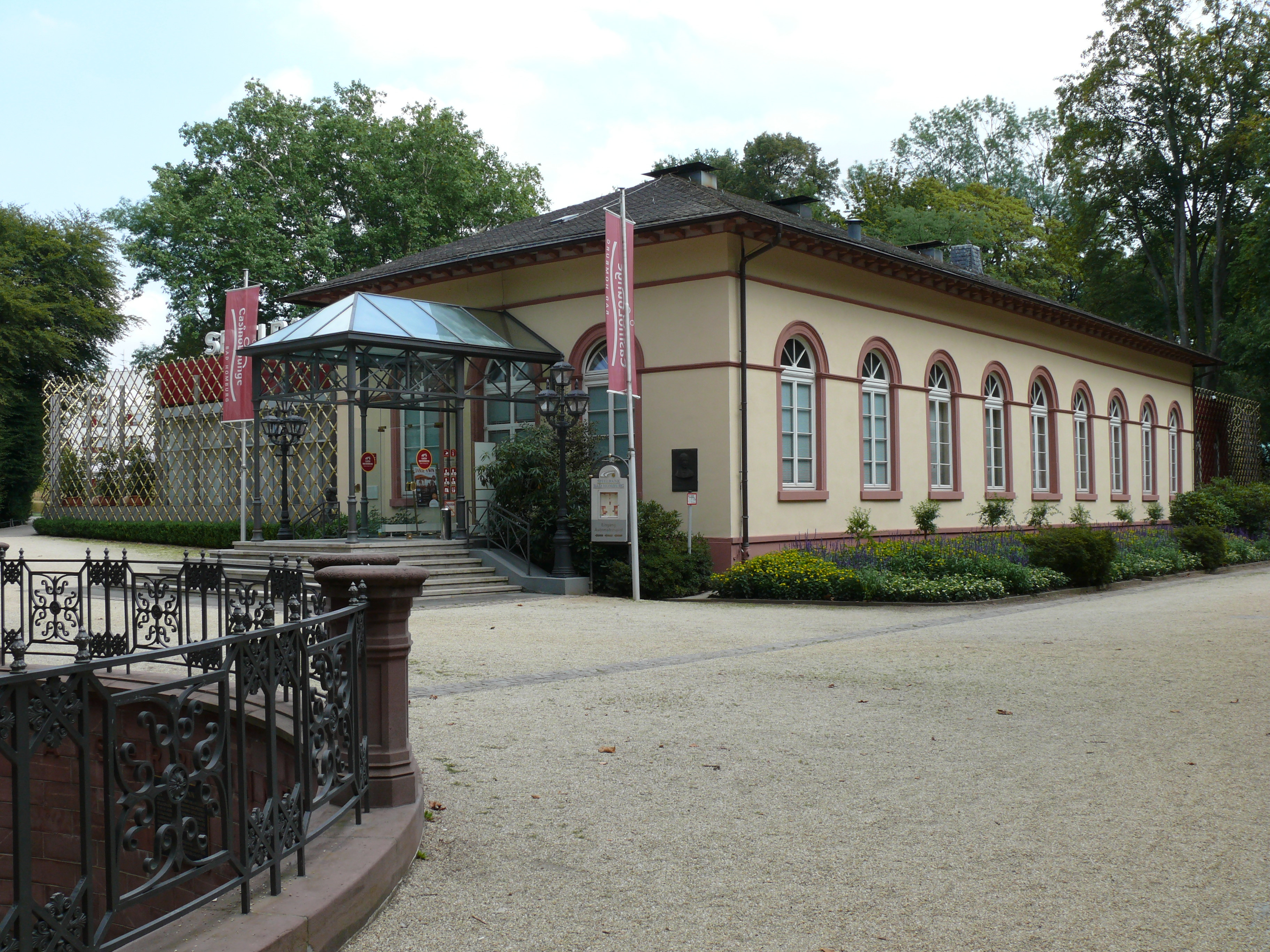 Casino in Bad Homburg, Hesse, Germany